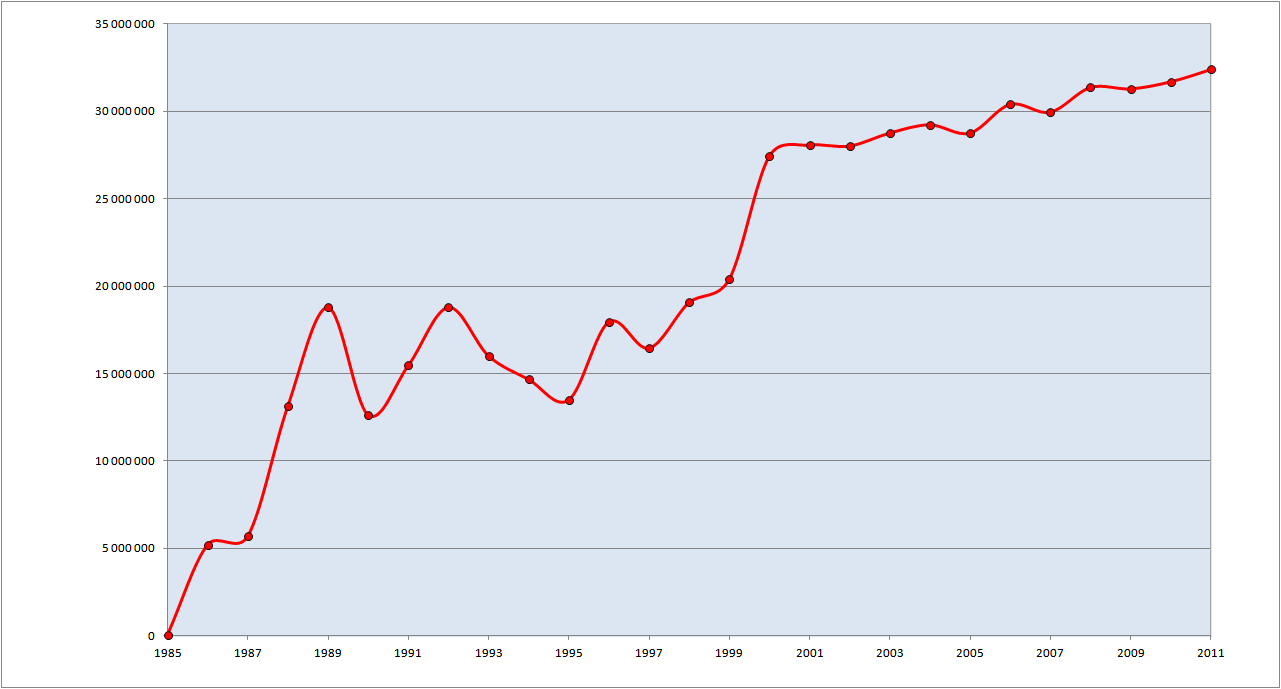 Yearly Balakovo NPP electricity production (1985-2009), K kWh